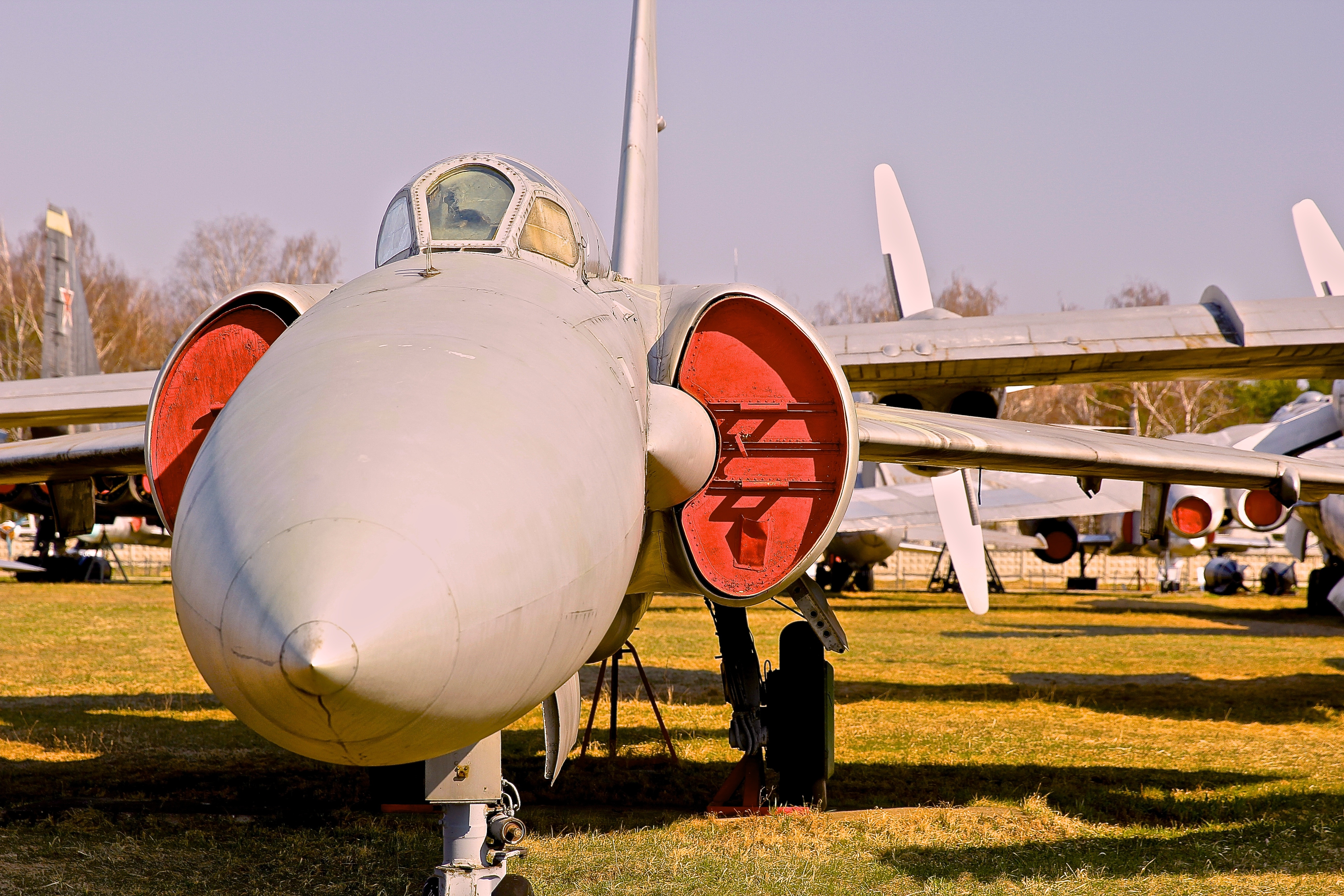 Inlet of La-250 take from specific angle to show separation of inlet from body for supersonic flight.